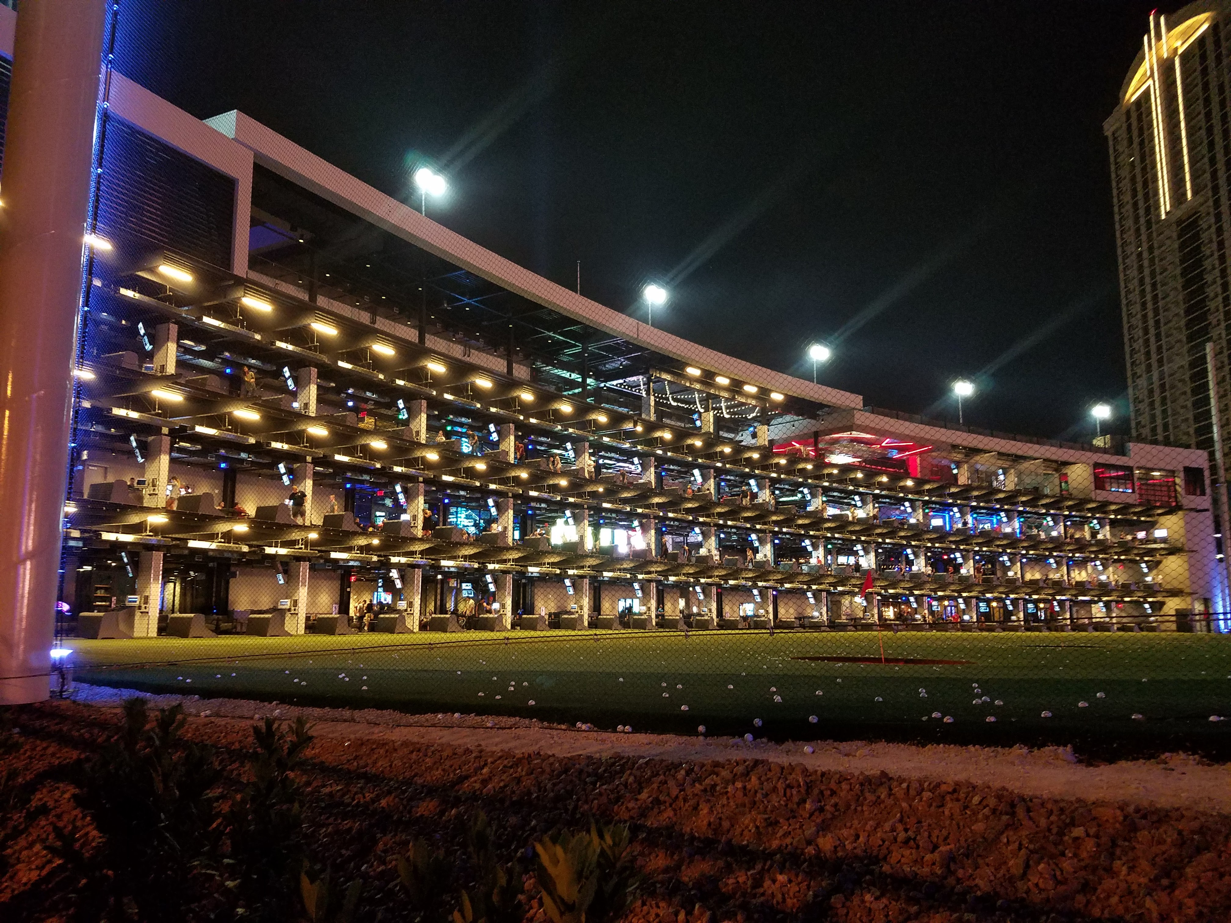 Picture of tees at TopGolf in Las Vegas, Nevada